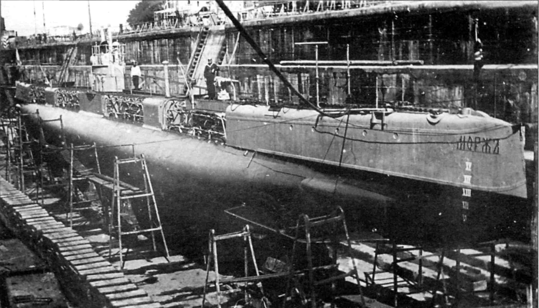 Submarine Morzh on the dock at Sevastopol.